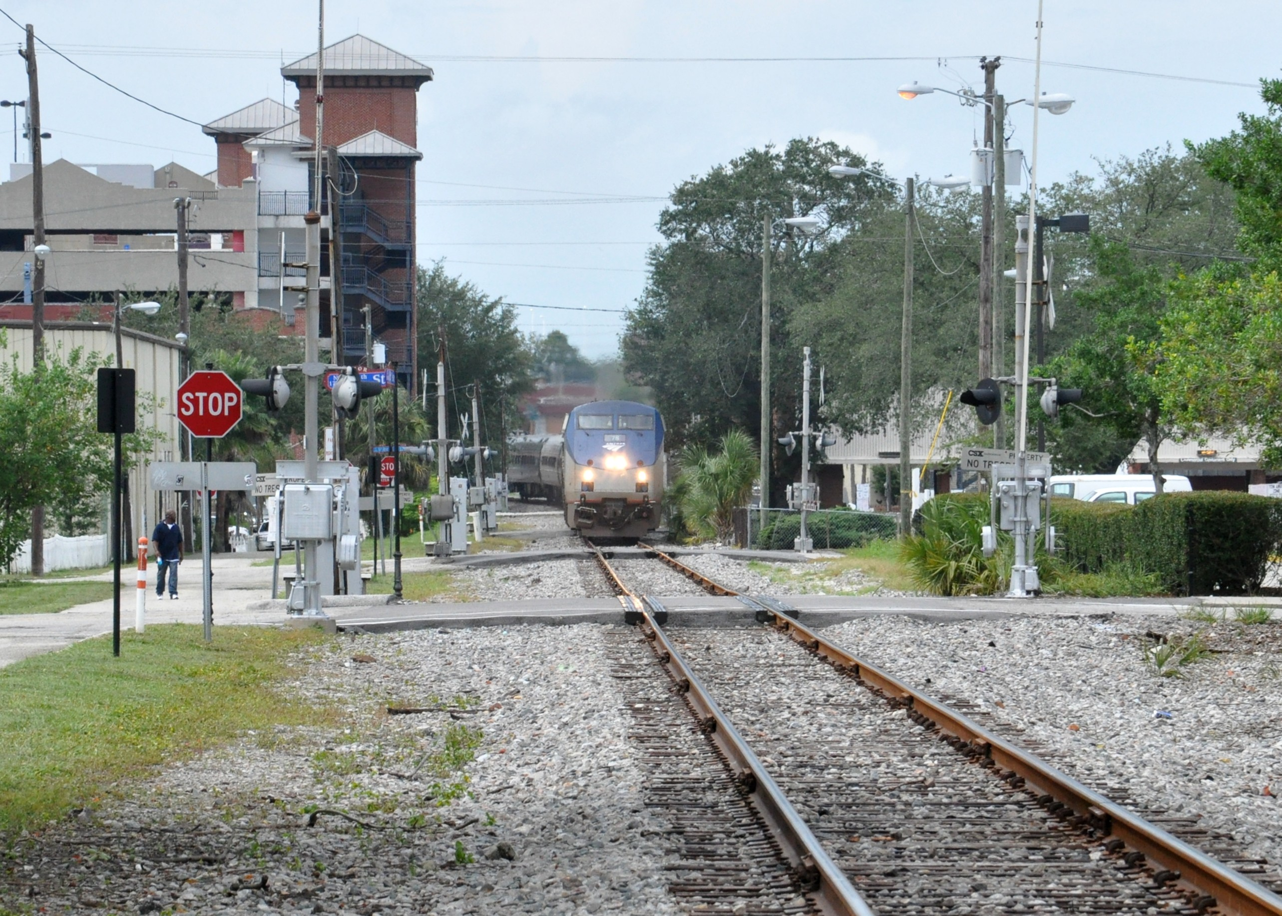 Amtrak Silver Star passing through Ybor City in reverse to arrive at Tampa's Union Station.